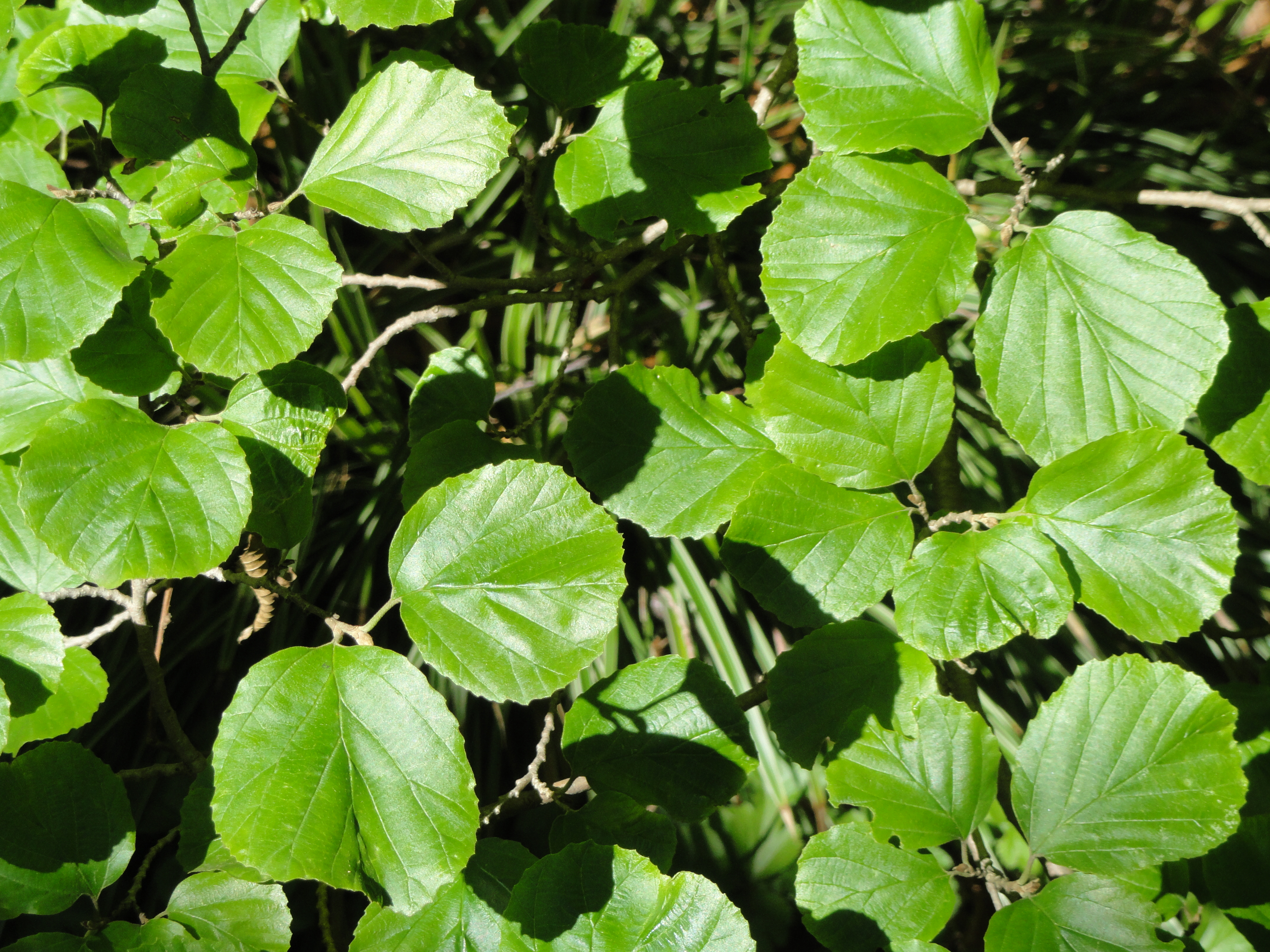 Botanical specimen in the Botanischer Garten, Frankfurt am Main, Germany.